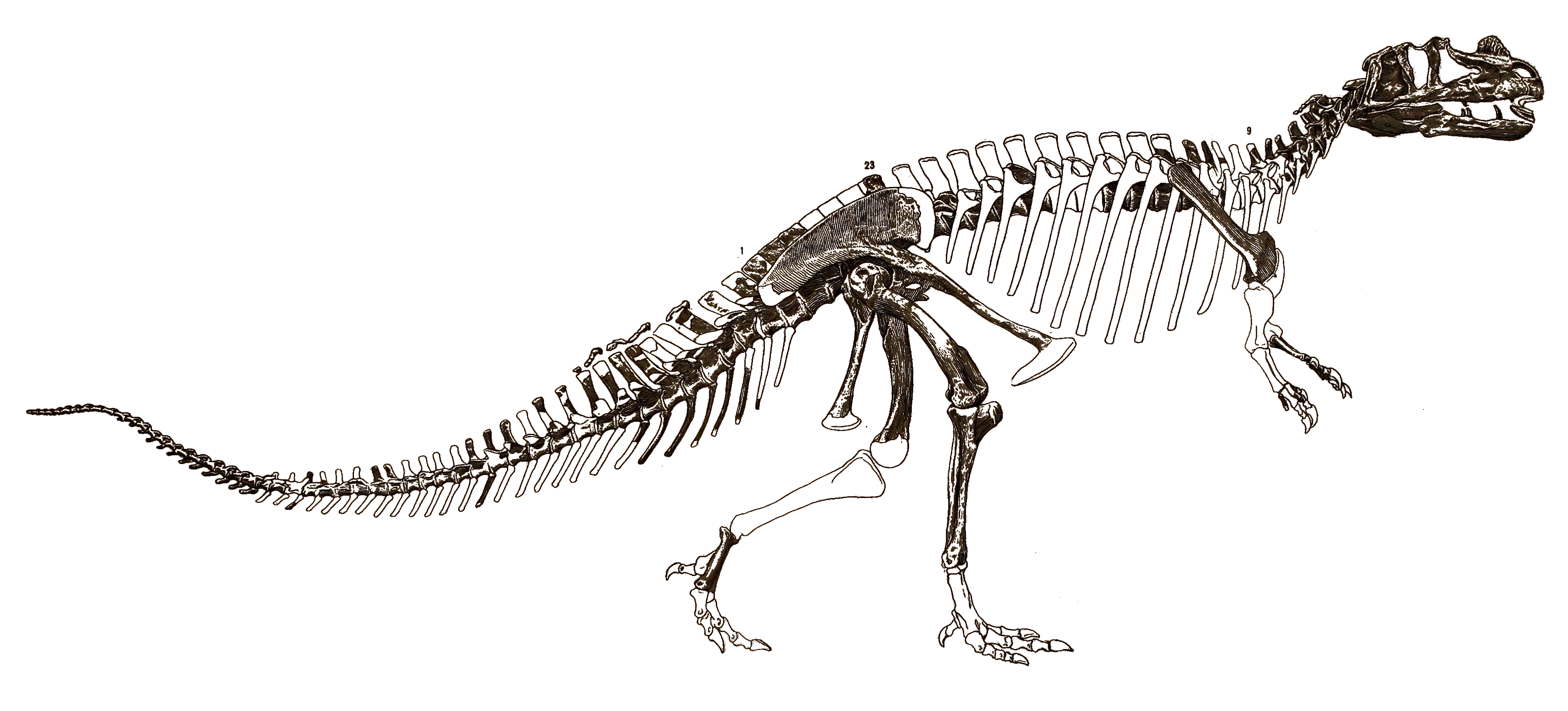 Skeletal reconstruction of the holotype of Ceratosaurus nasicornis by Charles Gilmore, 1920. Kown parts are shown, including known positions of osteoderms. Osteology of the carnivorous Dinosauria in the United States National museum : with special reference to the genera Antrodemus (Allosaurus) and Ceratosaurus /